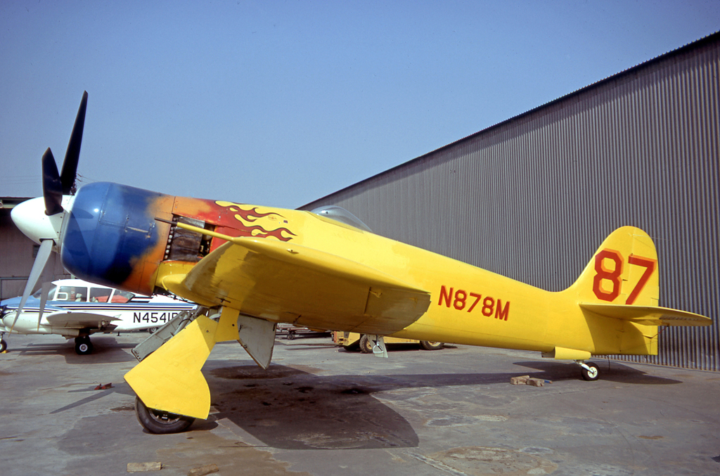 Hawker Sea Fury FB.11 N878M at Long Beach airport in 1970. It has a cut down canopy and other racing enhancements.